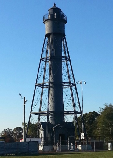 Picture of Tinicum Rear Range Lighthouse in the Billingsport section of Paulsboro, NJ.